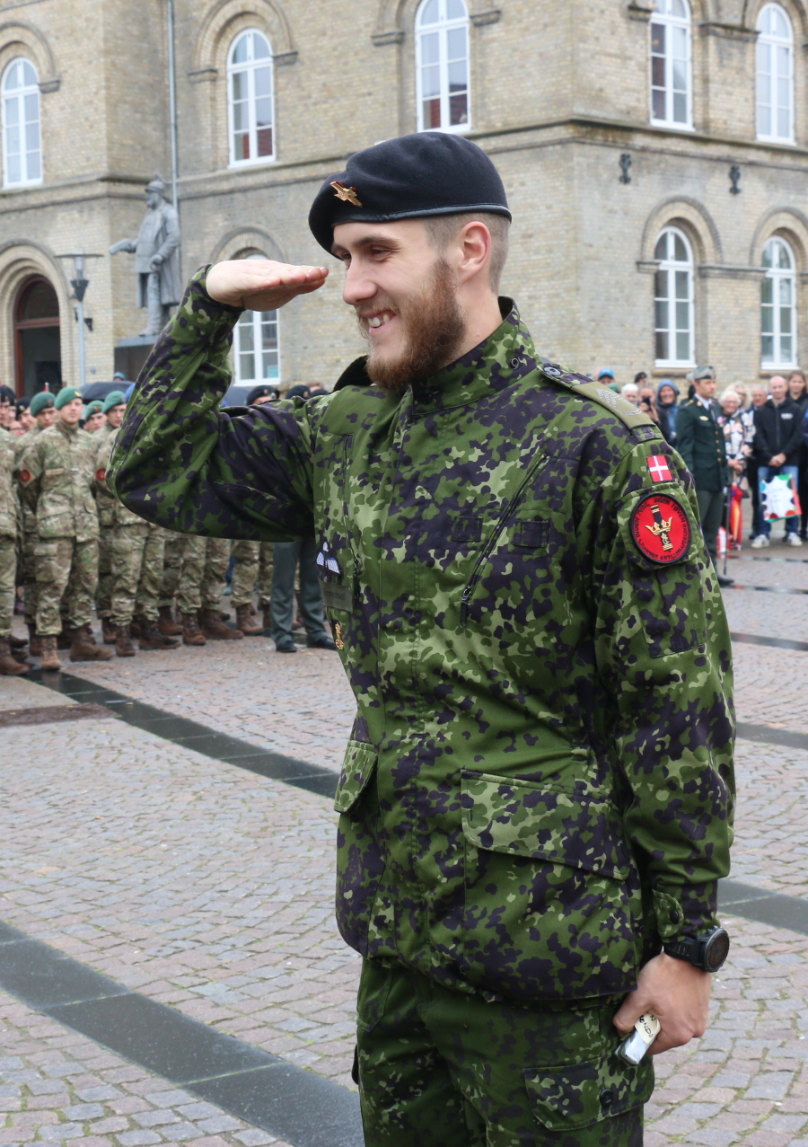 Danish Sergeant giving a salute, after graduating from NCO school